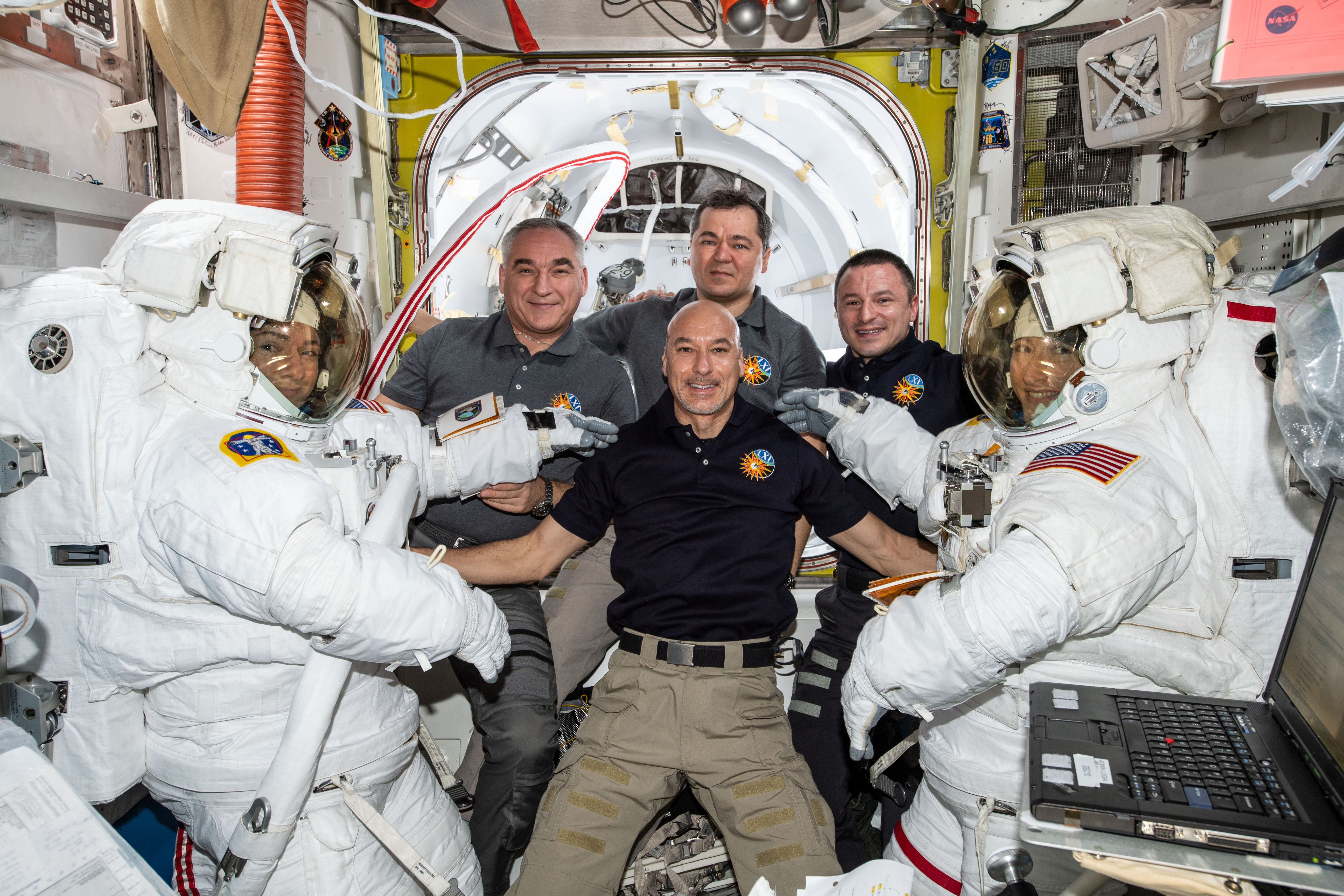 The Expedition 61 crew pauses for a photo as NASA astronauts Jessica Meir and Christina Koch prepare to exit the space station to begin the first all-female spacewalk in history on Oct. 18, 2019.